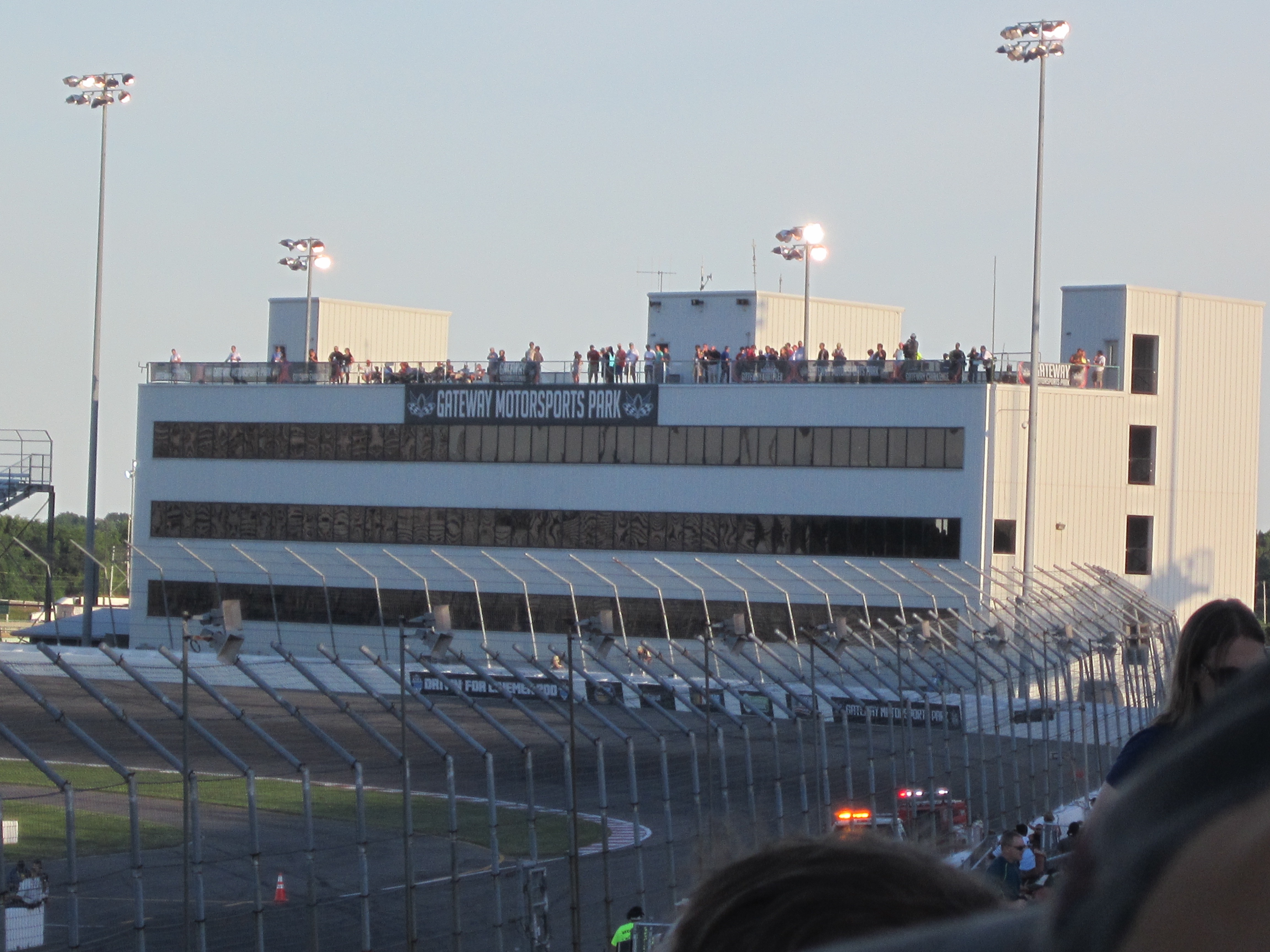 Gateway's spotter tower alongside the circle track